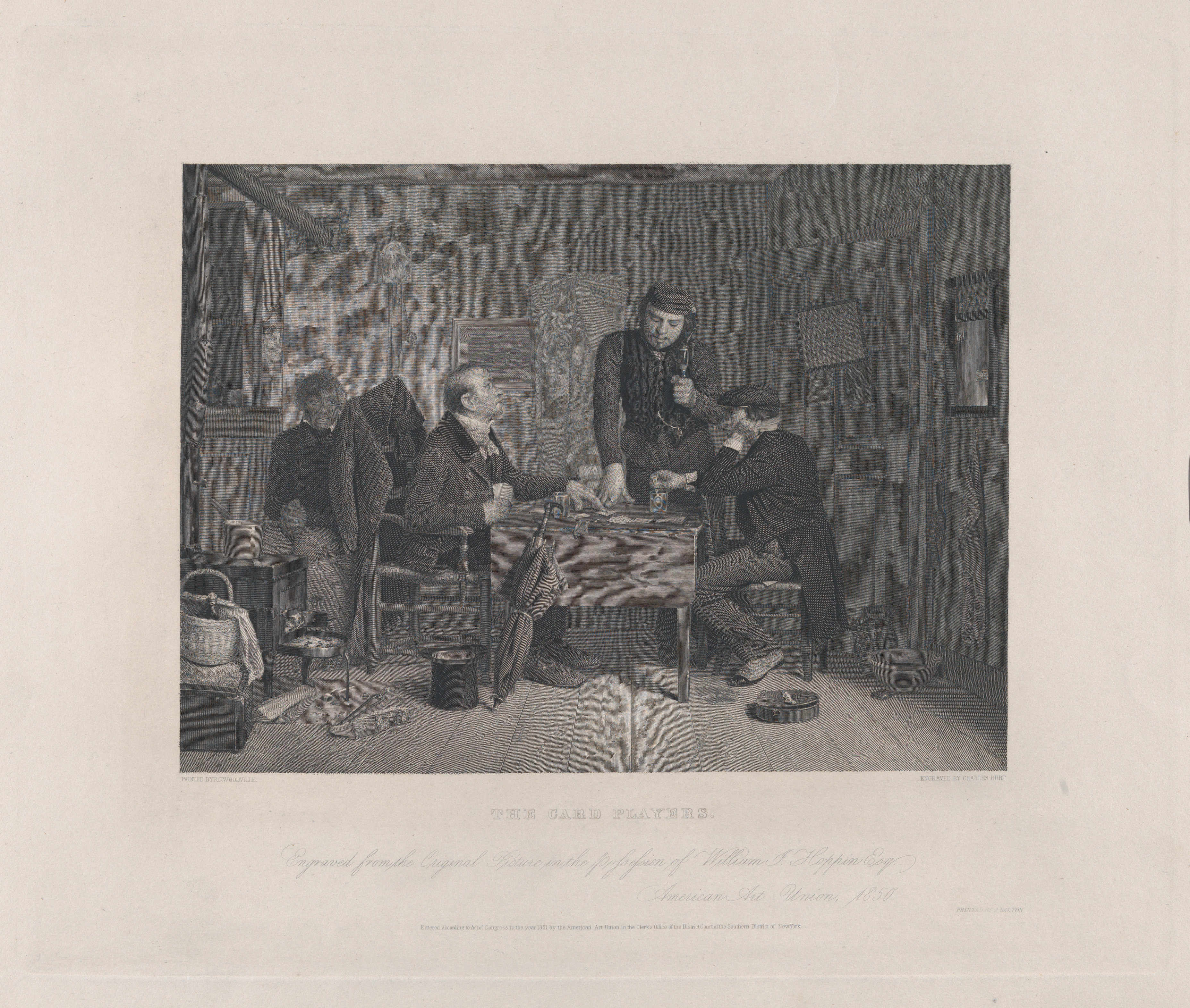 Print; Prints